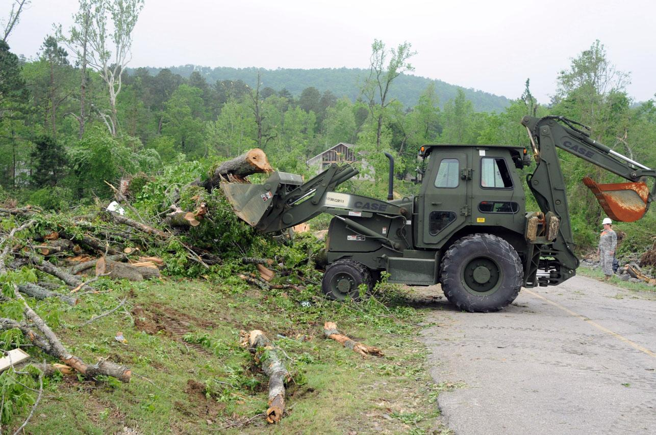 A member of the 875th Engineer Battalion of the Arkansas National Guard from North Little Rock uses a backhoe to clear trees and storm debris from a hard hit area of Garland County, April 26.